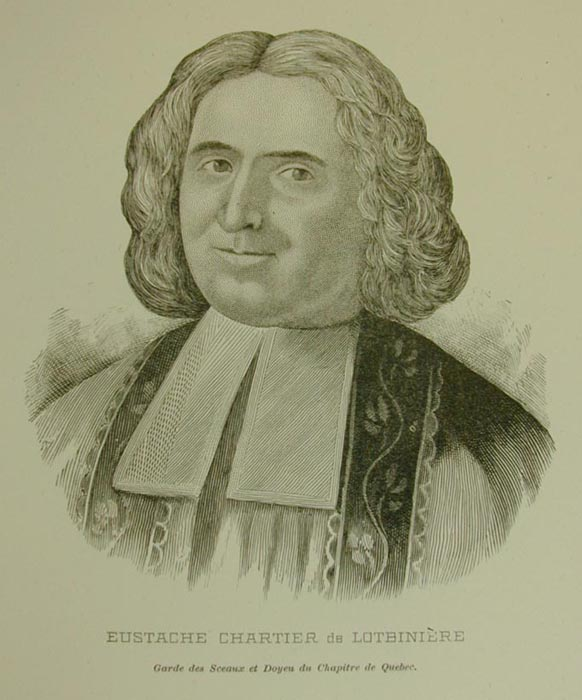 Eustache Chartier de Lotbinière (1688-1749), The first Canadian Dean of Notre-Dame de Québec Cathedral Engraved by Benjamin Sulte from an original painting, 1882-1884